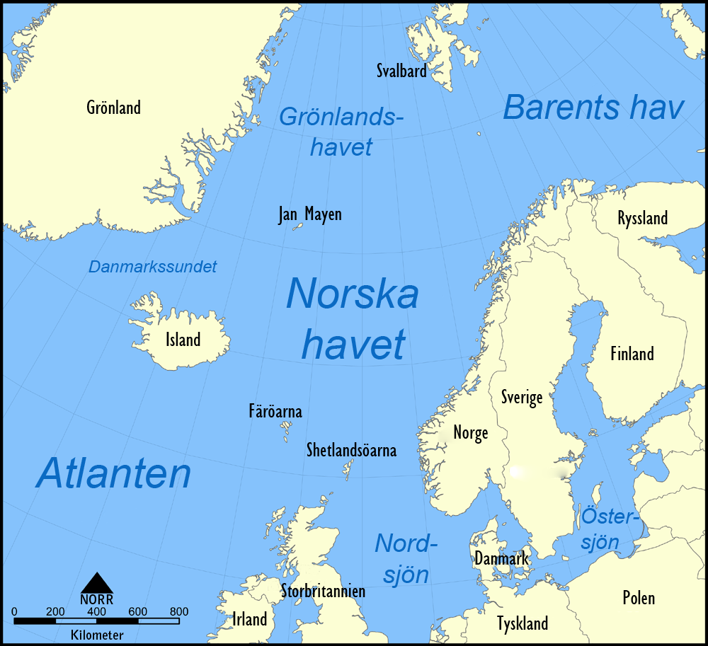 A map in Swedish showing the location of the Norwegian Sea in the North Atlantic Ocean.